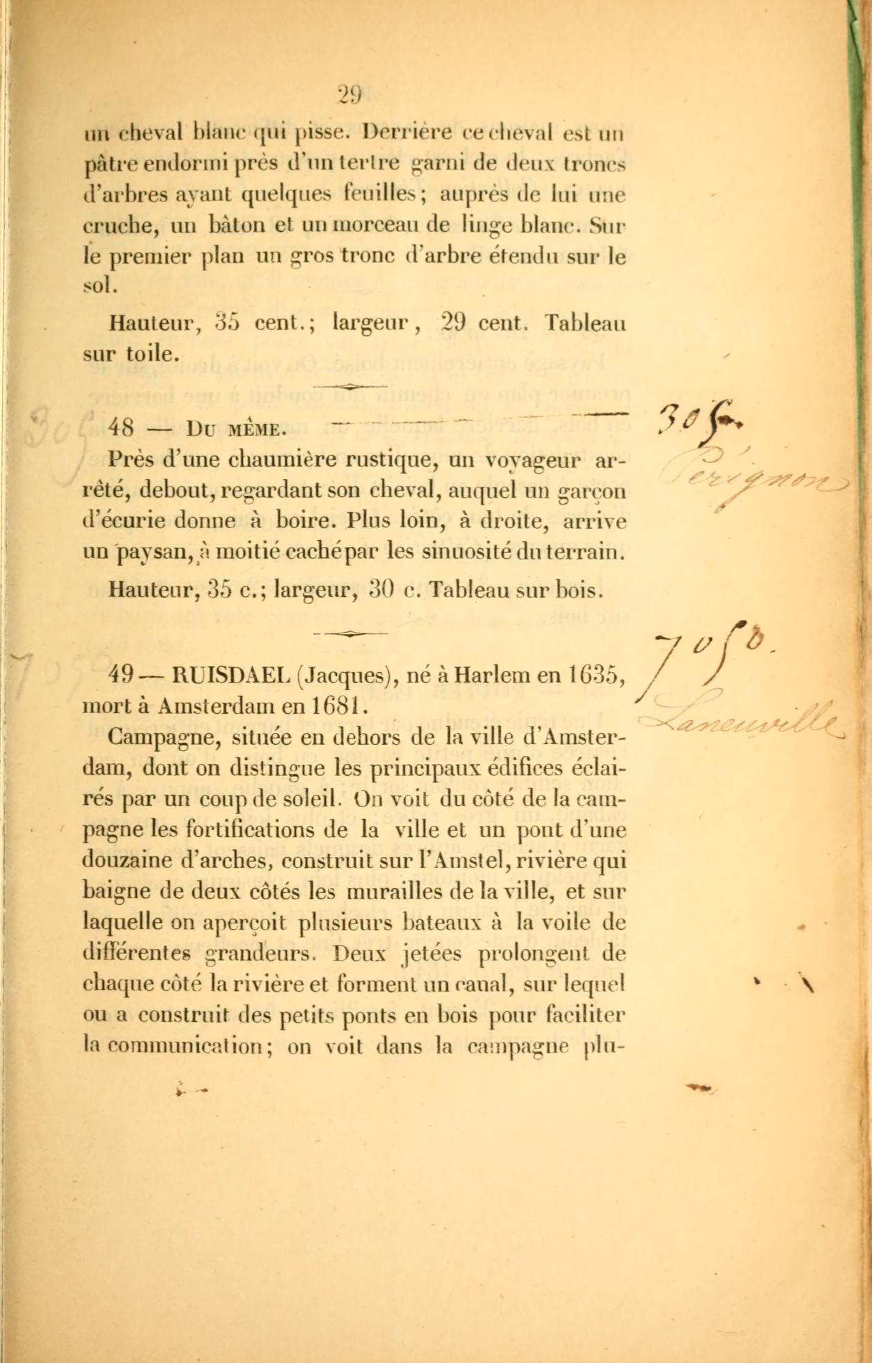 Catalogue d'une belle collection de tableaux du premier ordre, ... qui composent le Cabinet de feu de M. de Guignes, p. 29.